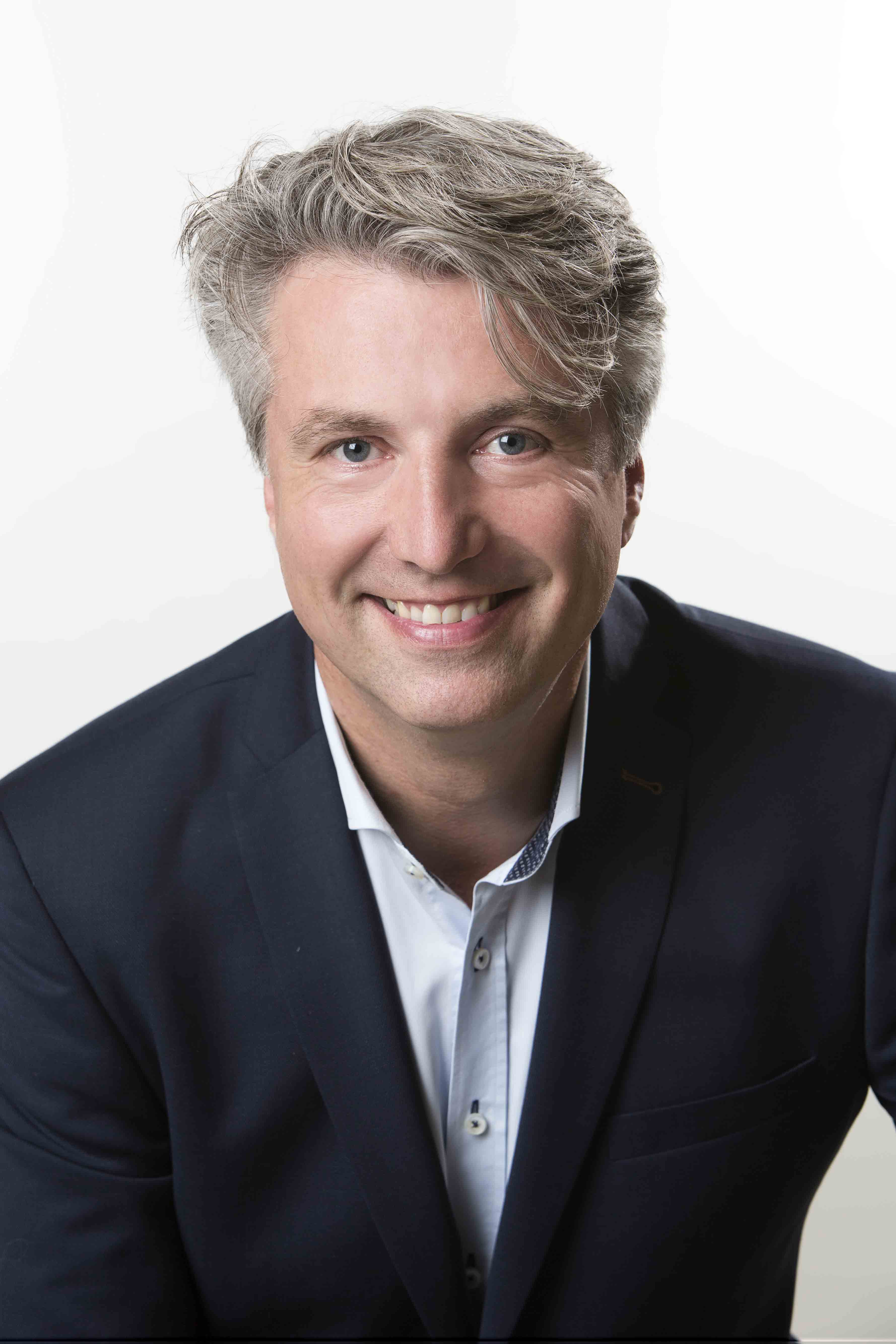 Foto taken by Till Stengel